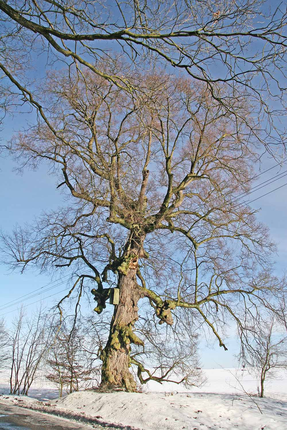 Klamoš Lime near Klamoš, Hradec Králové District, Czech Republic. Small-leaved Lime (Tilia cordata), height 19 m, circumference 400 cm, est. age 300+ years [1]